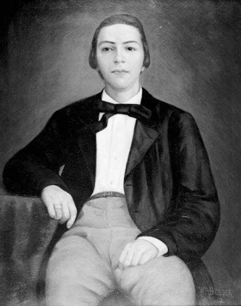 Portrait of David Owen Dodd by William Besser, 1912. Arkansas History Commission Date: 1912 Type: Painting Medium: Oil on canvas Dimensions: Sight: 101cm x 75.4cm (39 3/4" x 29 11/16"), Accurate Current Owner: Arkansas History Commission Object number: AR010016 Data Source: Smithsonian Catalog of American Portraits